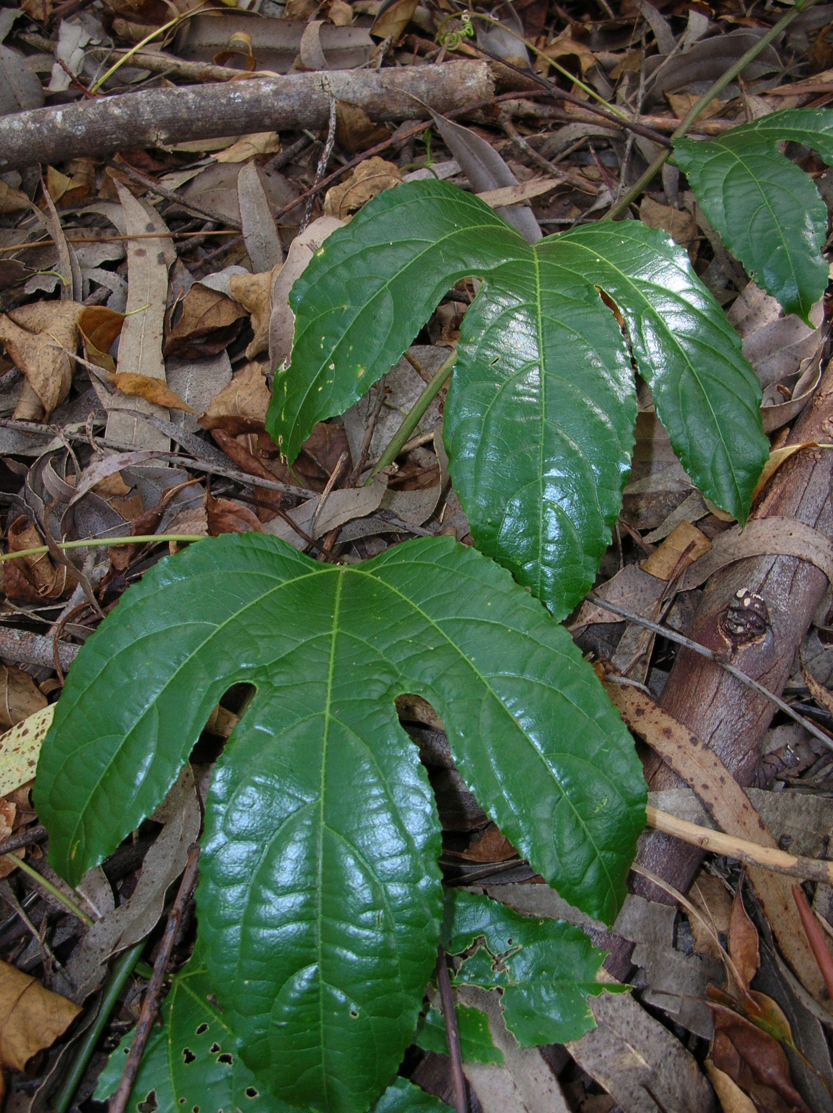 Passiflora edulis (habit). Location: Maui, Makawao Forest Reserve